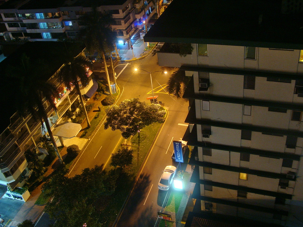 Night view of Via Argentina